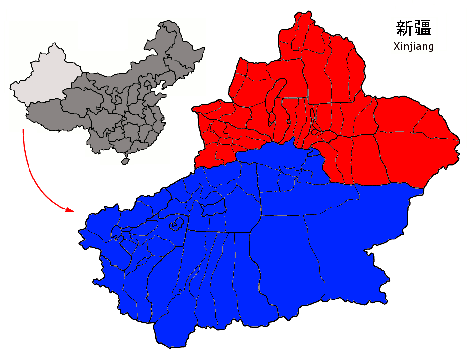 Xinjiang macroregions, separated by the Tian Shan Dzungaria Tarim Basin